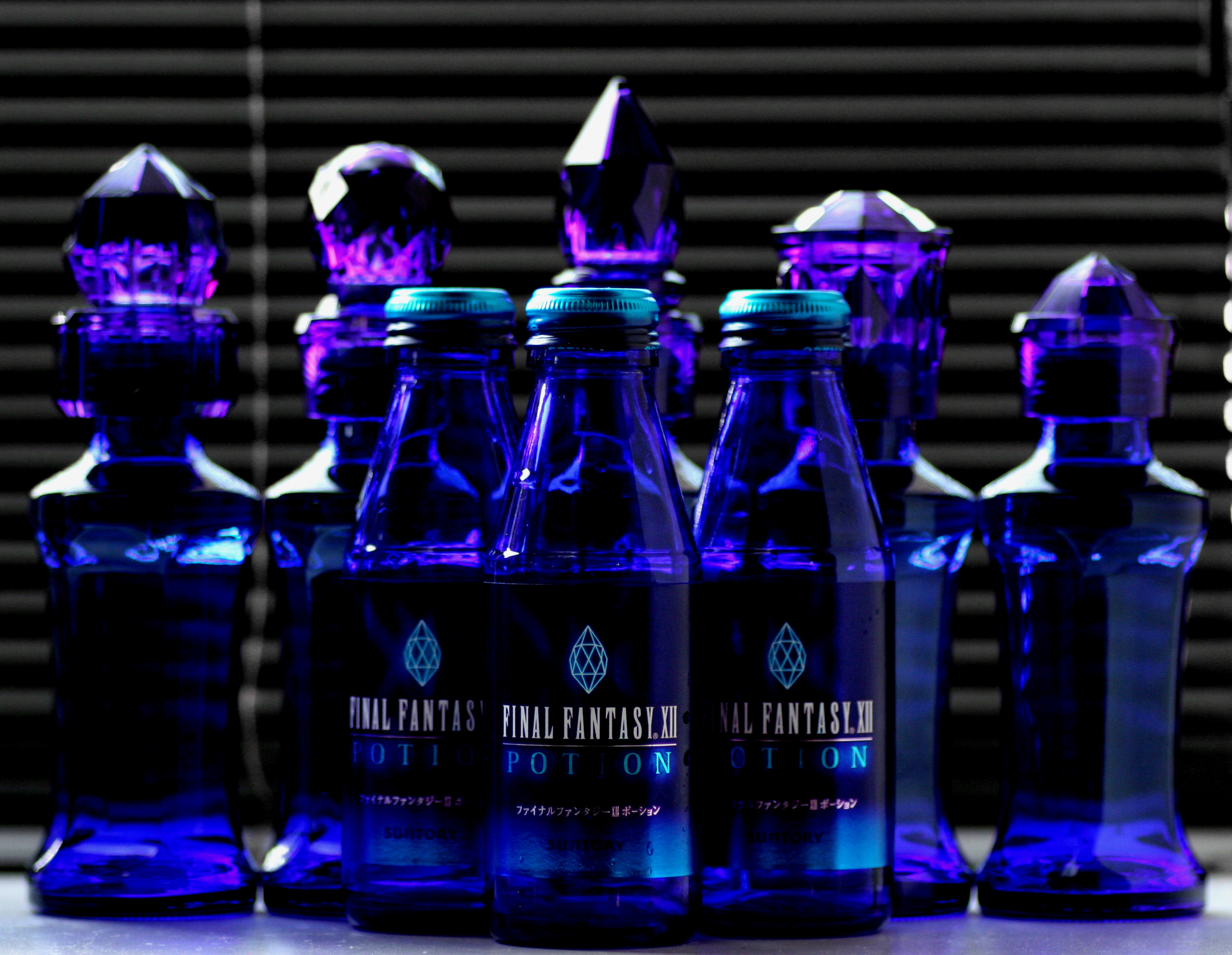 Photographs of several "Final Fantasy XII Potions", a drink produced in Japan by Suntory Ltd. to promote the release of the video game Final Fantasy XII.